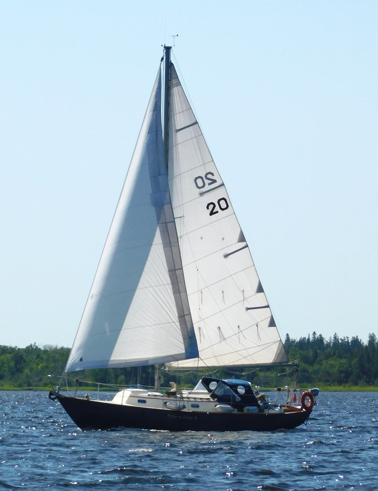 A C&C Corvette 31 sailboat named Free n Easy II.